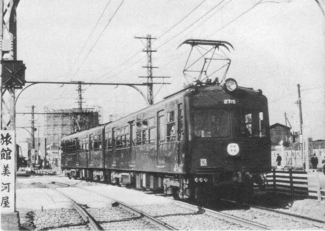 Keio Corporation 2700 series EMU led by car 2715